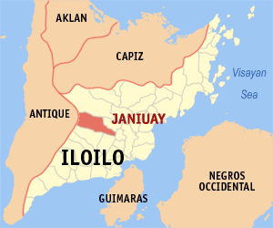 Map of Iloilo showing the location of Janiuay